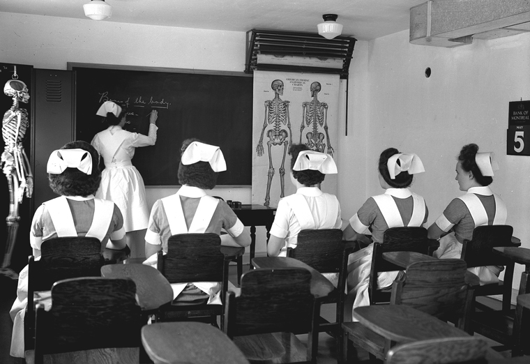 1945 black and white negative A. E. Cross Studio Fonds: Miscellaneous Series: Galt Hospital Class For information about the organization of the A. E. Cross Studio Fonds or about the studio refer to 19941051000 To obtain high quality and larger reproductions of this image please visit the Galt Museum & Archives website: and include thIs number in your request: P19941051396